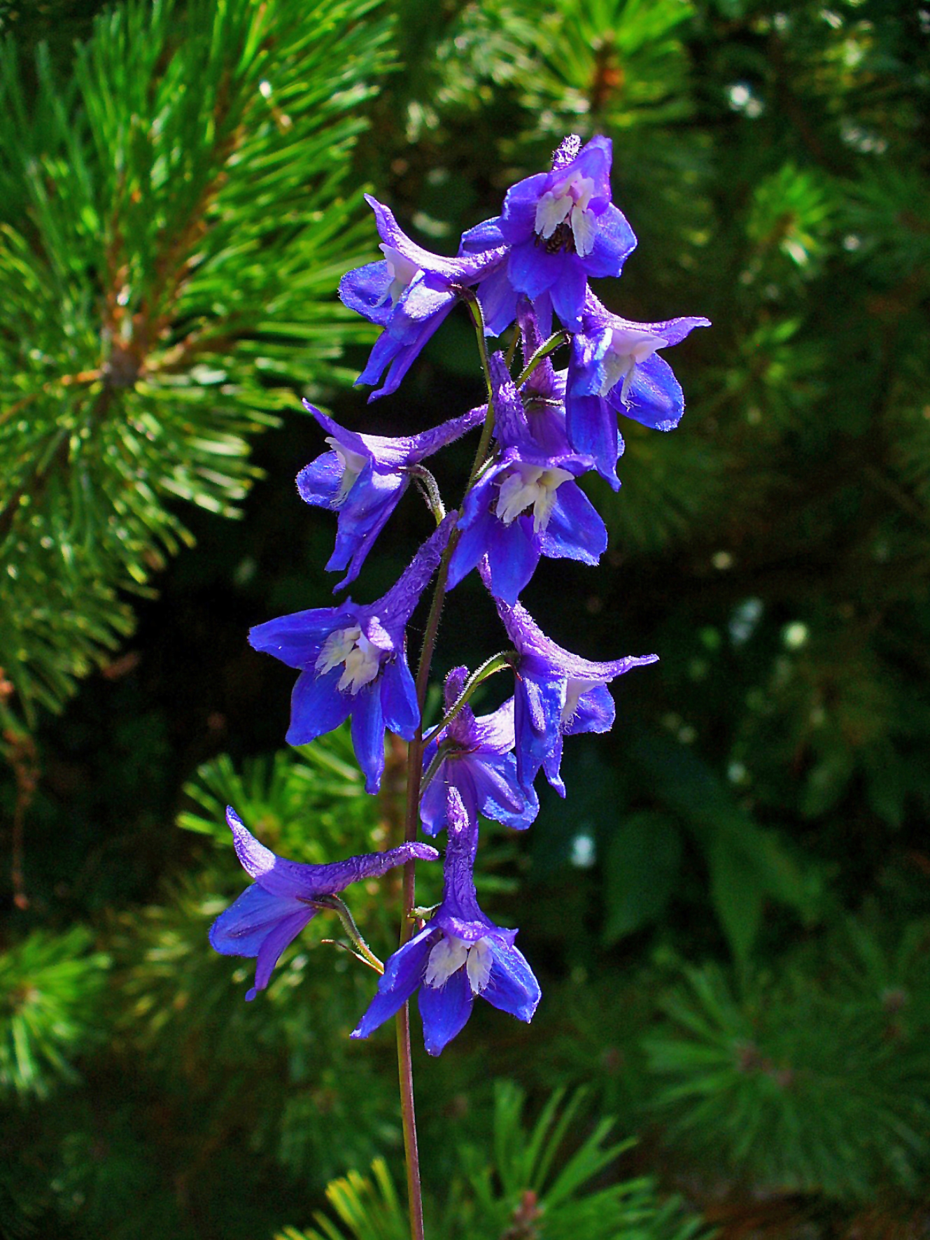 Delphinium elatum, Ranunculaceae, Candle Larkspur, inflorescence; Botanical Garden KIT, Karlsruhe, Germany.